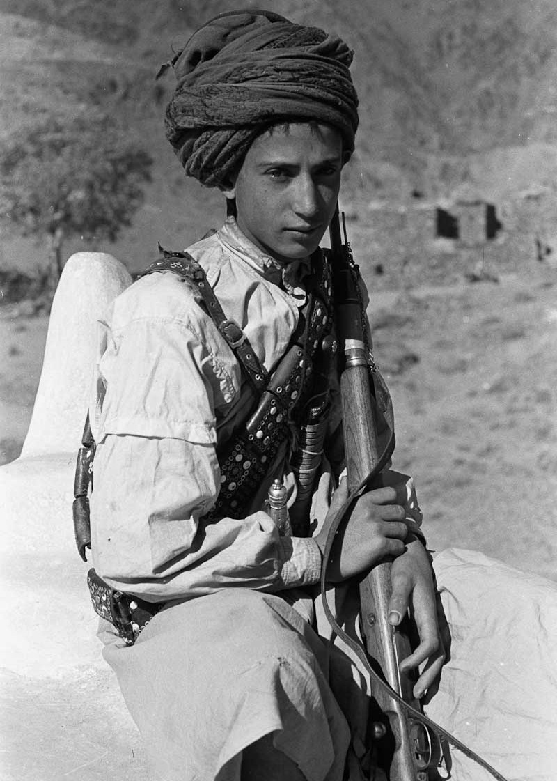 An Armed teenager from Hashid in 1966 (Yemen).